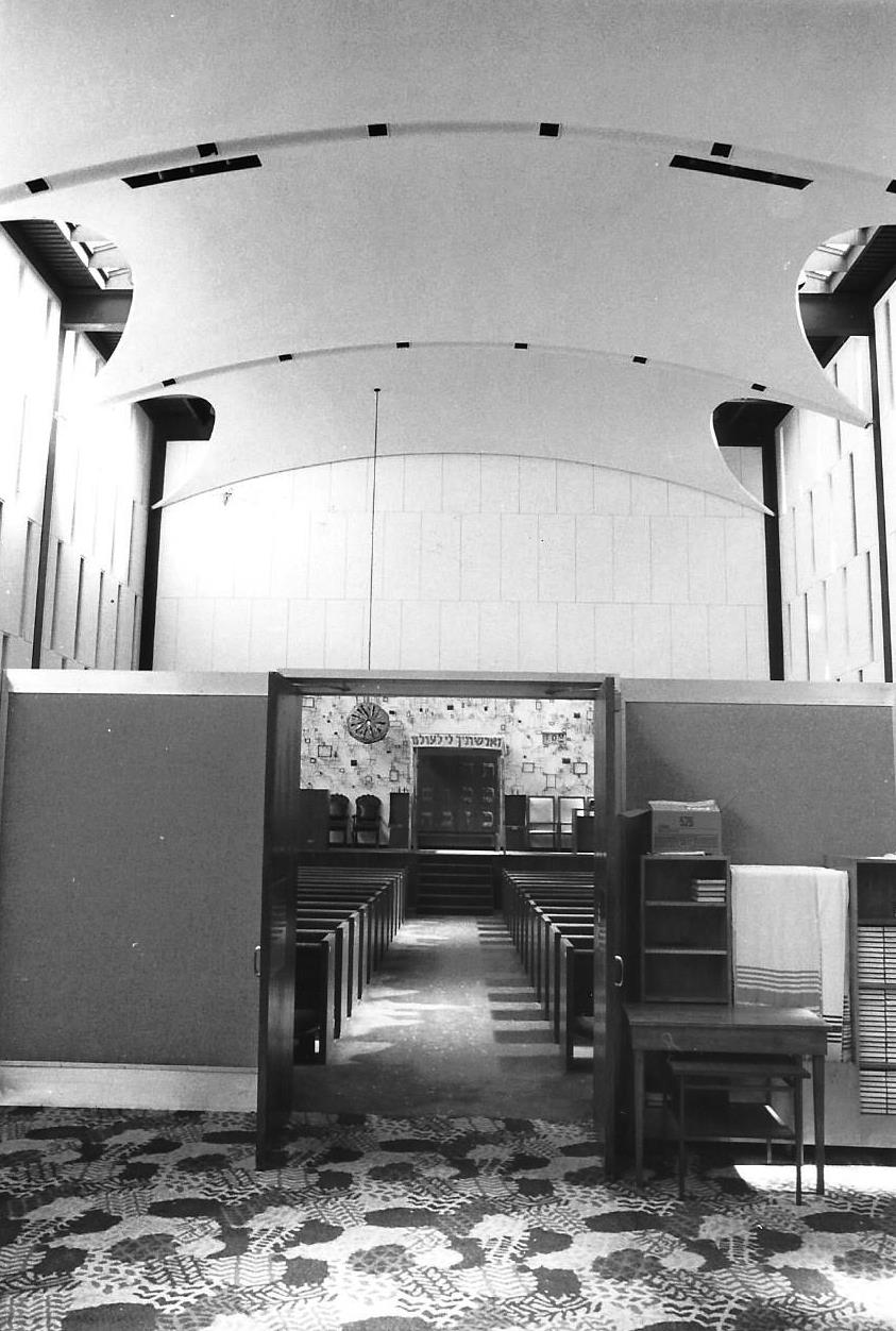 This view of our bima shows the Ibram Lassaw sculpture that was sold to the Jewish Museum in 2006. Synagogue architect, Philip Johnson